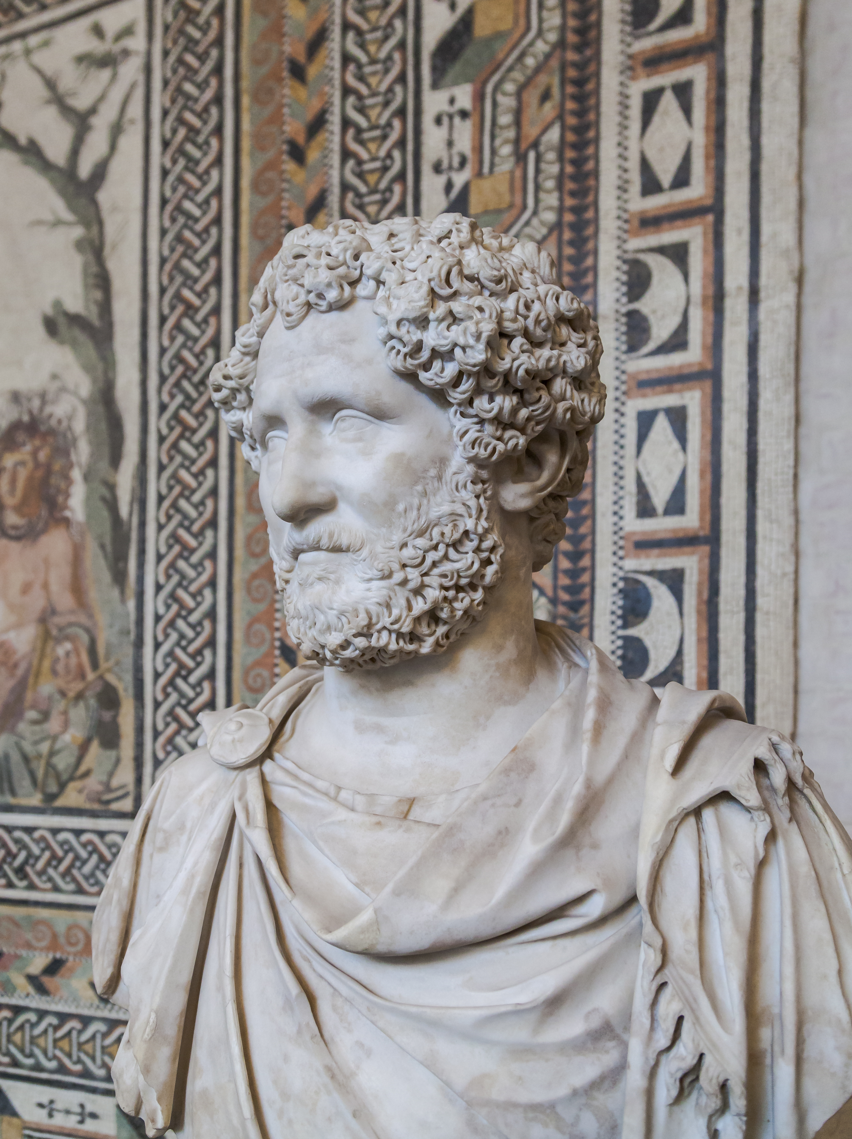 Bust of Roman emperor Antoninus Pius, Glyptothek, Munich, Germany